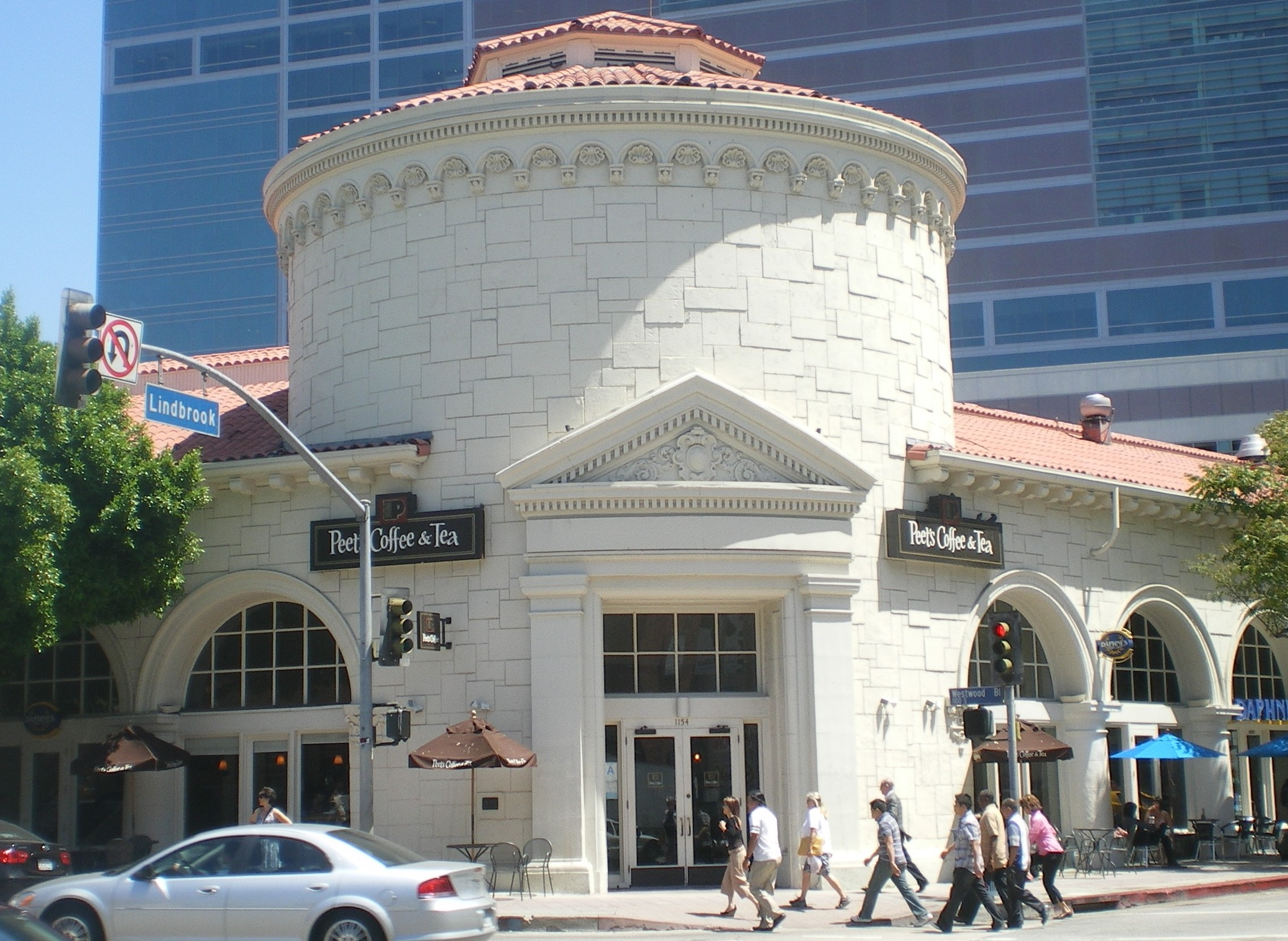 Ralphs Grocery Store, 1142-54 Westwood Blvd., Westwood Village, Los Angeles, California